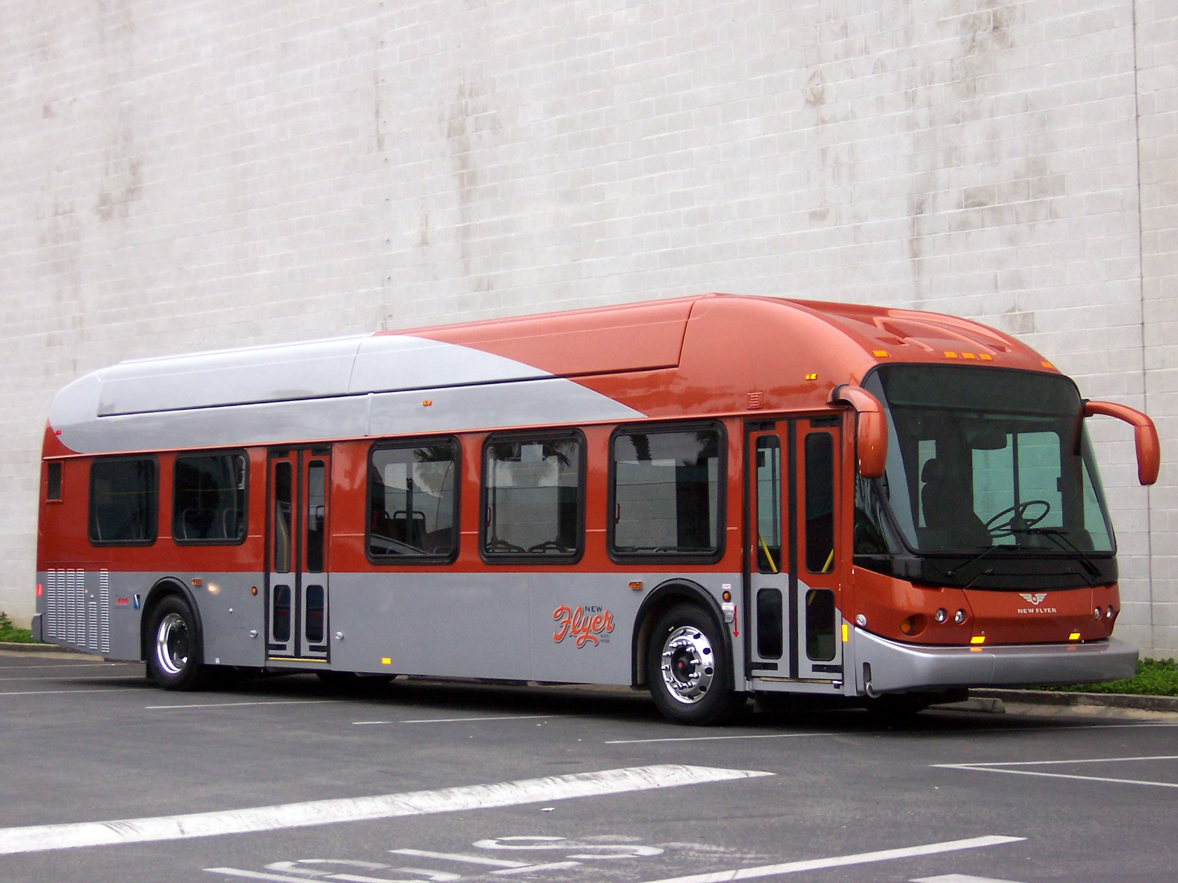 New Flyer Industries' 2005 Advanced Styling DE40LF BRT demonstrator, photographed at Anaheim, CA.